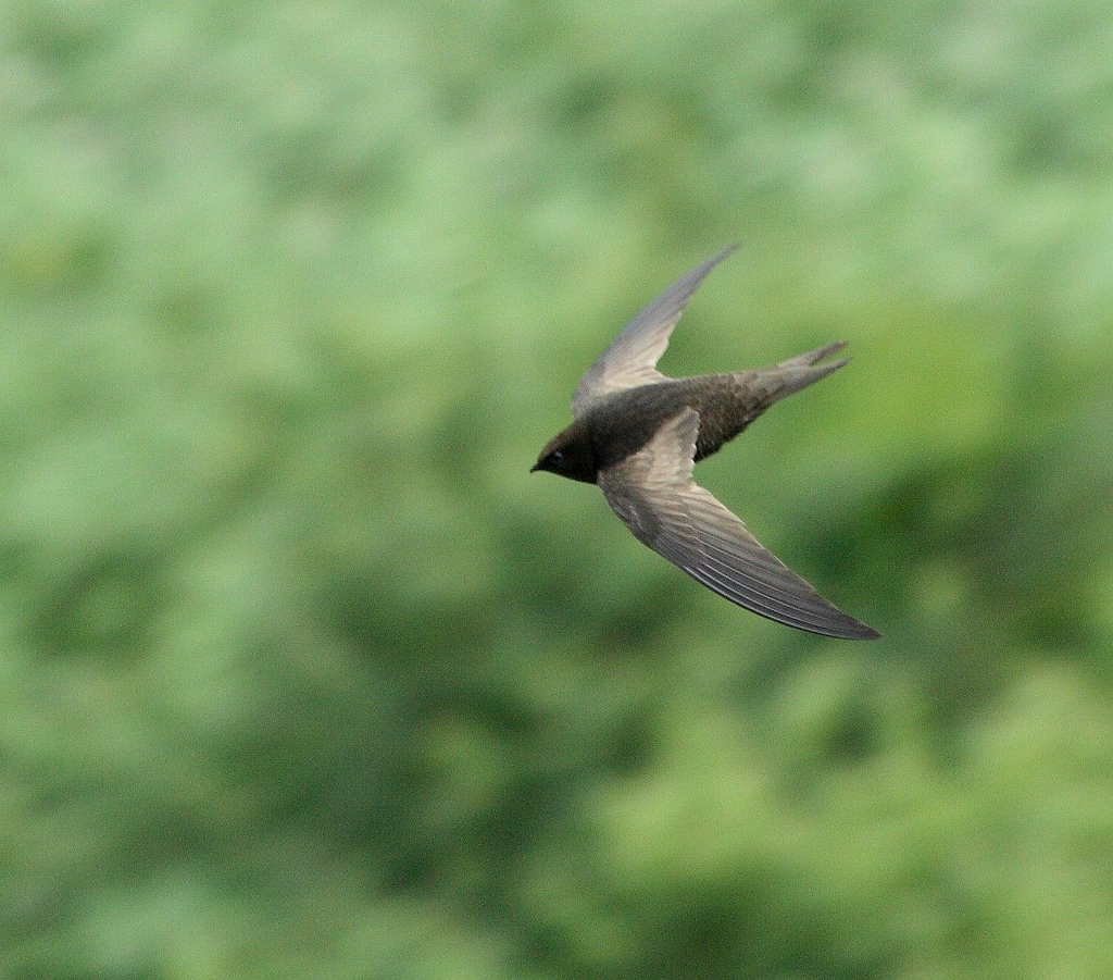 African Black Swift (Apus barbatus). From a great spot at the top of a cliff at Hlokozi, KwaZulu-Natal, South Africa.